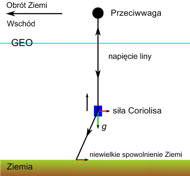 Polish version of this image